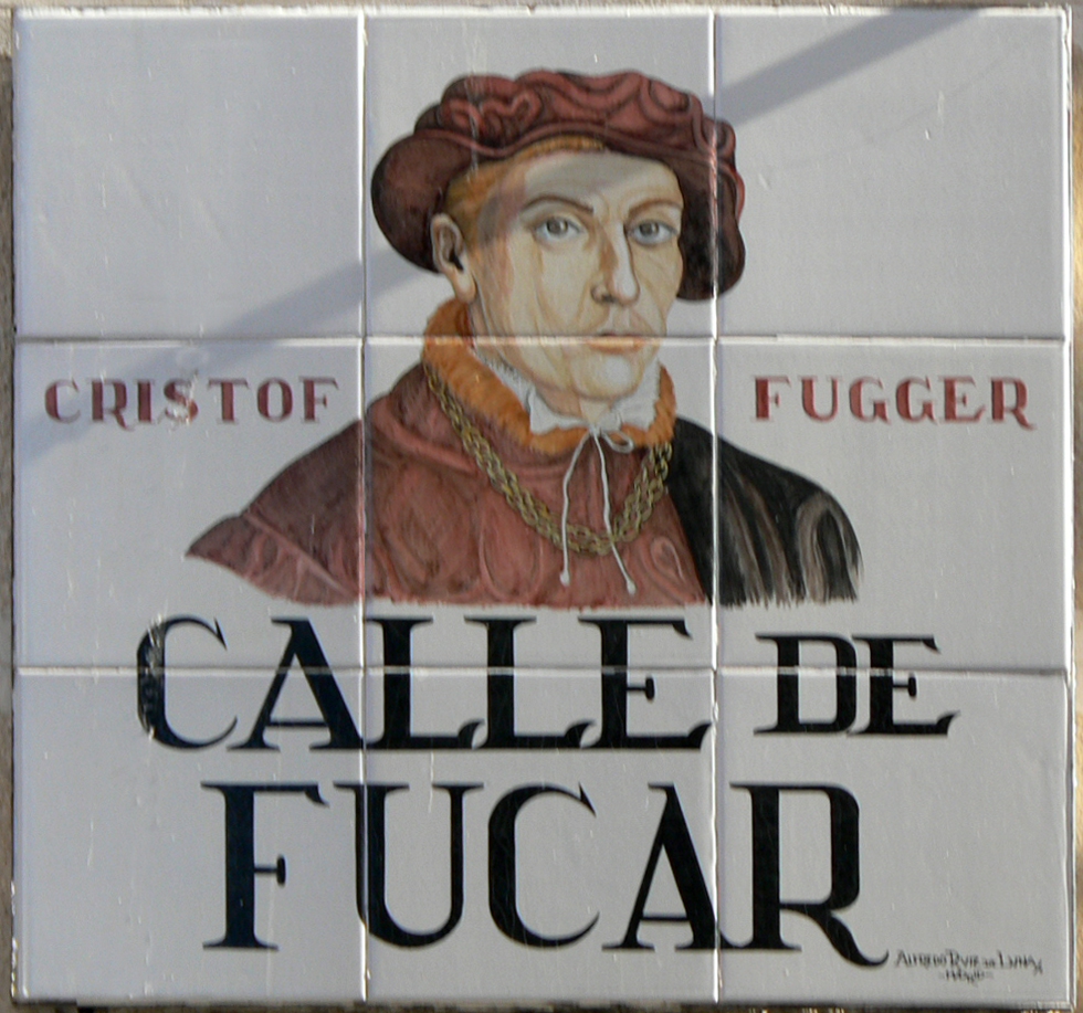 Sign of Calle de Fucar (street, Centro district) in Madrid (Spain).